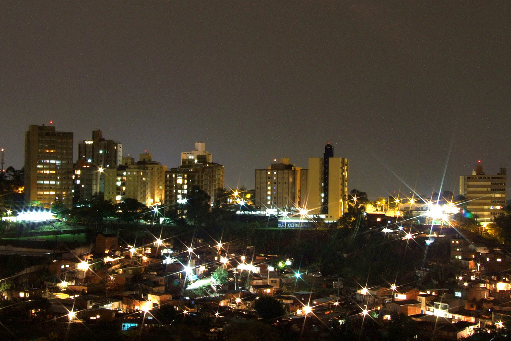 View of region of Jardim Flamboyant Neighborhood, in Campinas, São Paulo, Brazil.